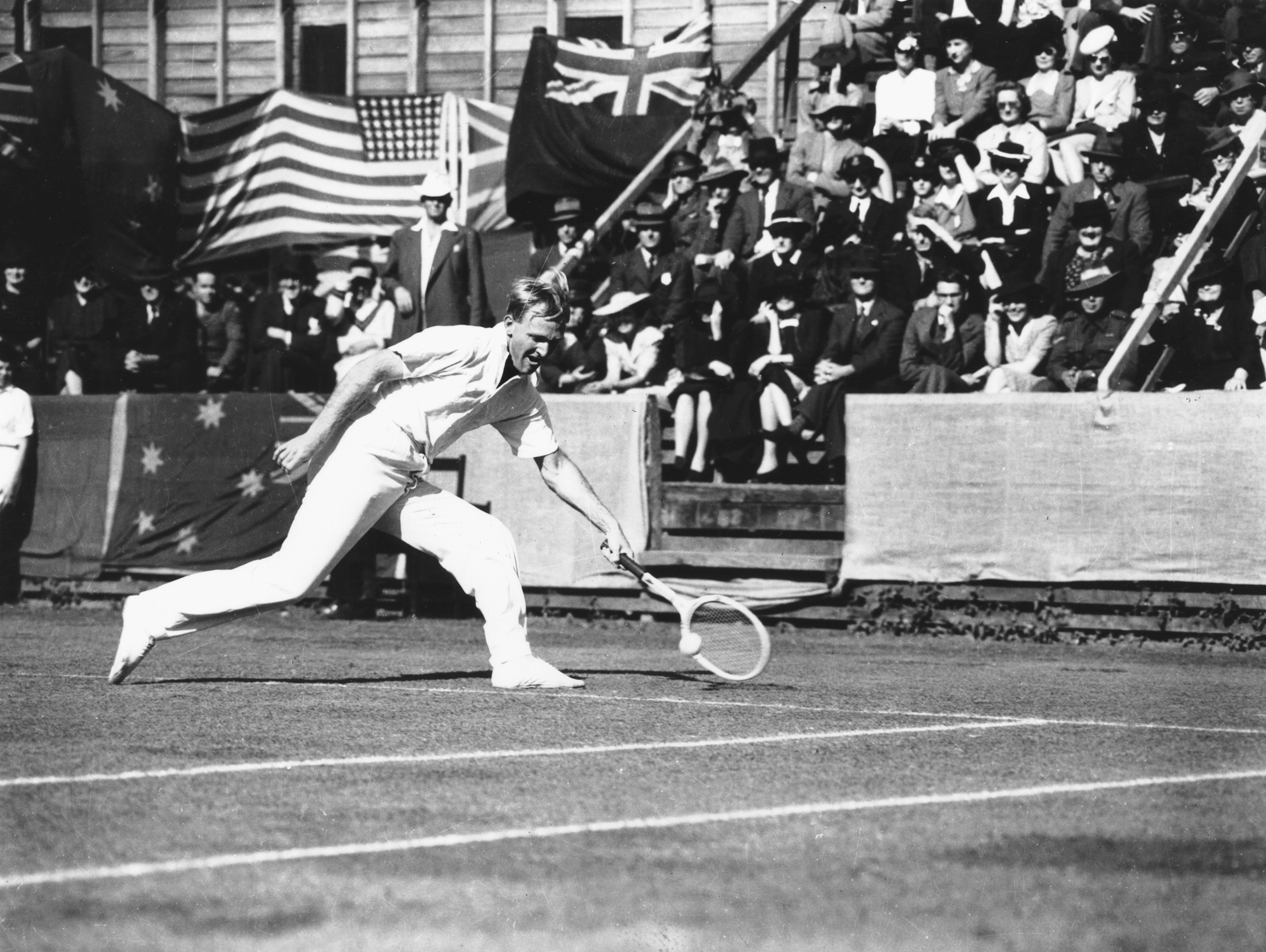 Australian tennis player John Bromwich versus D. Pails. Players in the 1944 Exhibition singles, in aid of the A.C.F. Battle Stations Appeal. (Information taken from: Sunday Mail, 27 August 1944.)